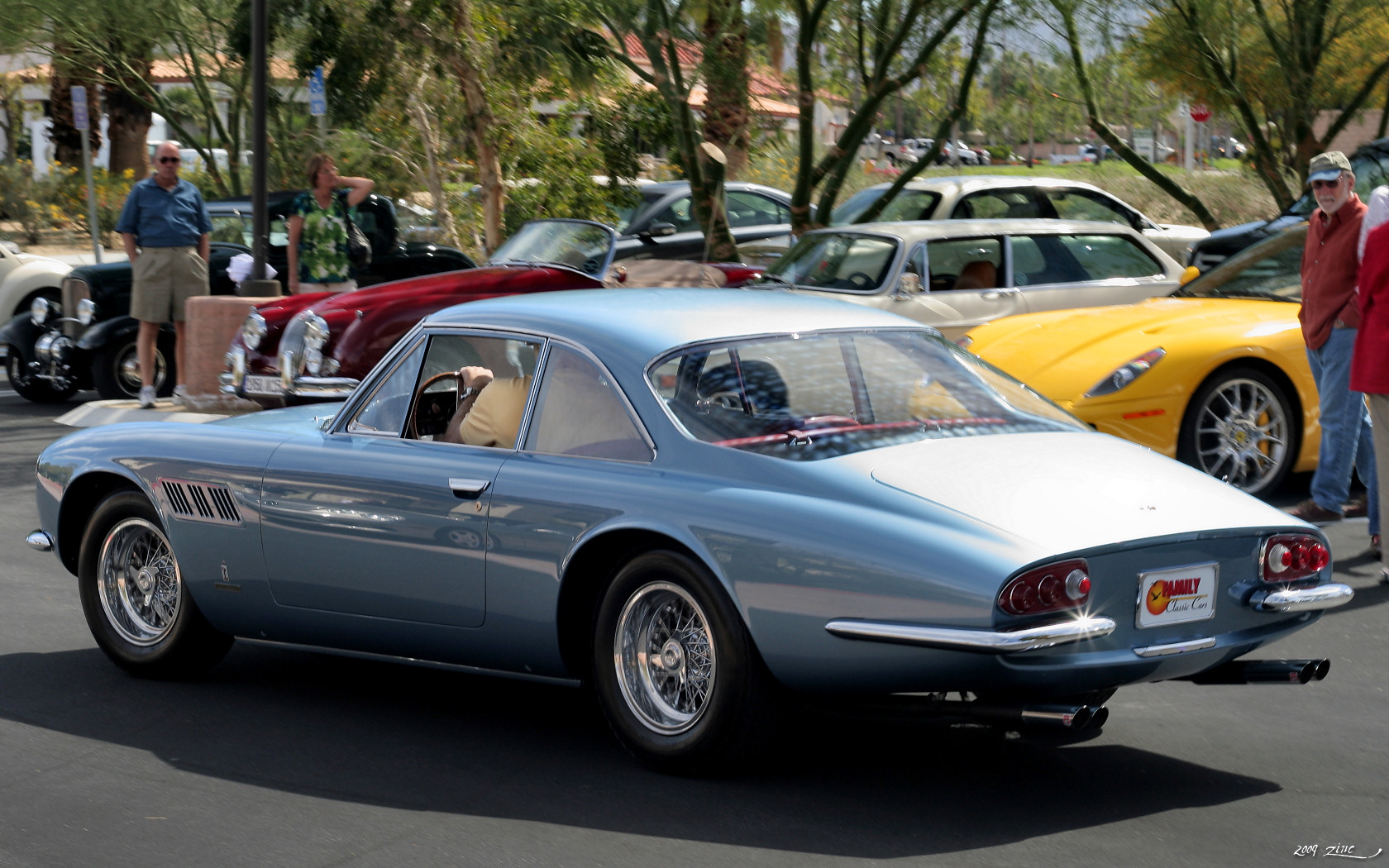 Palm Springs Desert Classic Concours d'Elegance, March 01, 2009